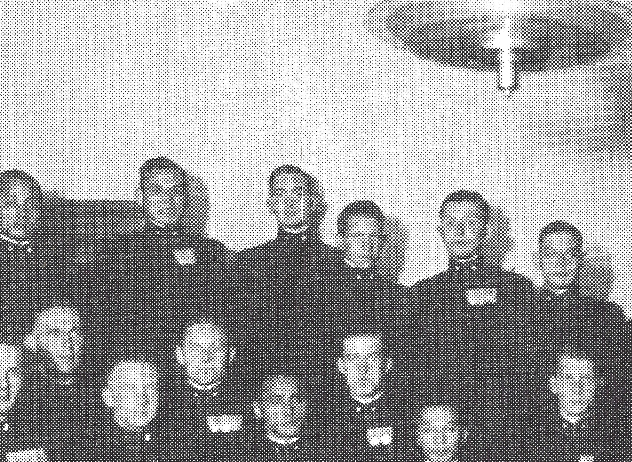 WHJE van Daalen